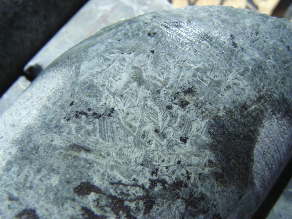 Photo by Rolinator, taken August 2006. Image is of feathery dendritic olivine crystals, serpentinised to chlorite-actinolite, from a komatiitic flow within the Windgiemooltha Komatiite, Widgiemooltha Dome, Western Australia. The sample is from drill hole WDD18, 137m approxmately downhole at the top of a thin komatiite lava flow. This is an excellent example of preservation of volcanological texture and is extremely rare. This image may be used for any purpose. Rolinator 03:26, 21 August 2006 (UTC)